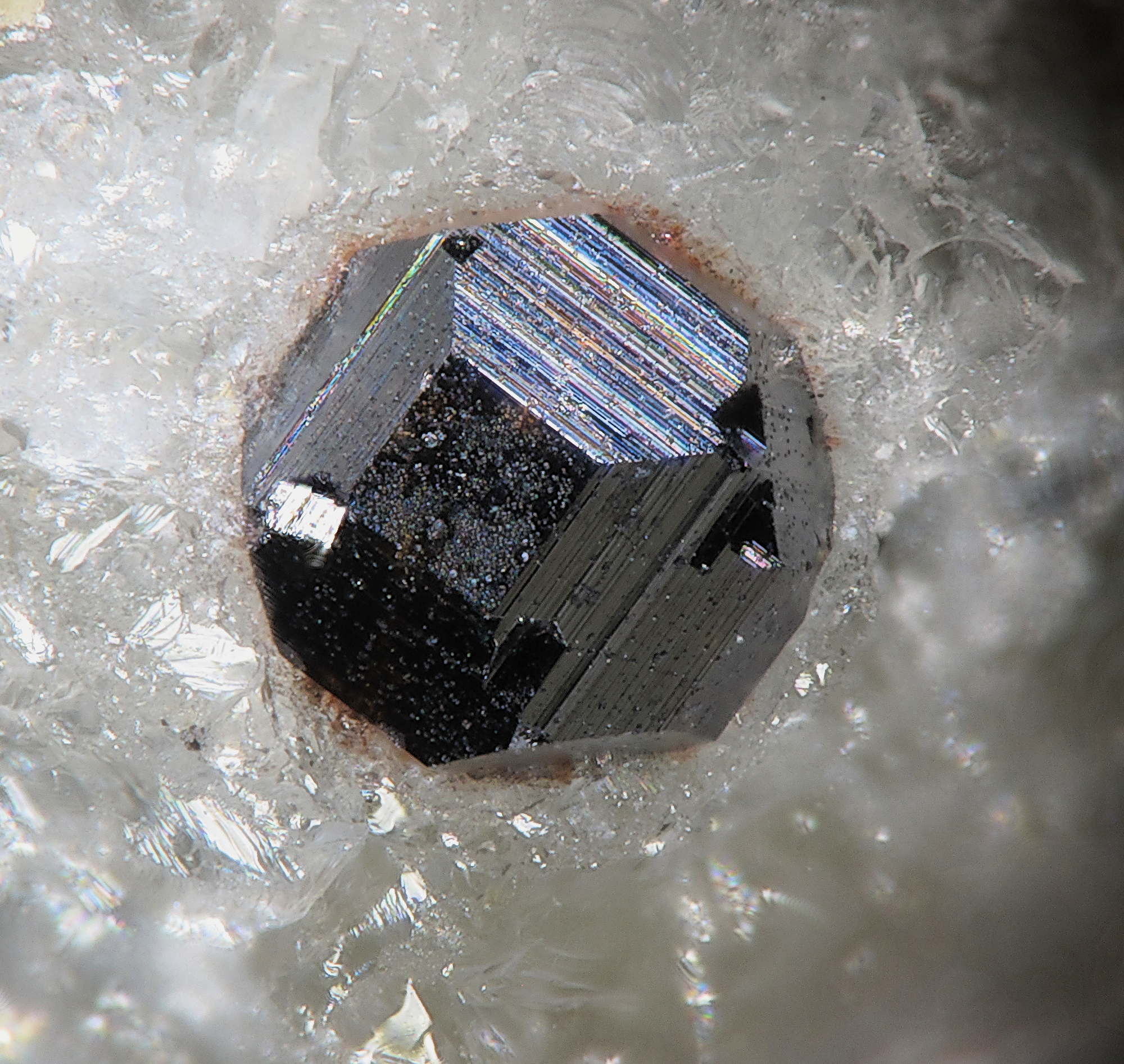 Isolueshite Dimensions: 3 mm x 3 mm x 2 mm; Field of view: 1.30 mm Locality: Kirovskii apatite mine (Kirovsky Mine; Kirovskii Mine; Kirov Mine), Kukisvumchorr Mt, Khibiny Massif, Murmansk Oblast, Russia Collection and photograph Christian Rewitzer 5.2014